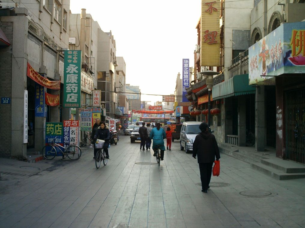 Photo of a backstreet in Baoding, China